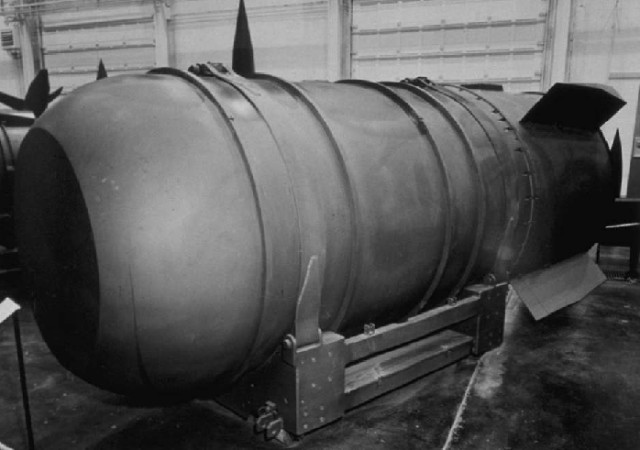 The Mark 26 thermonuclear bomb.